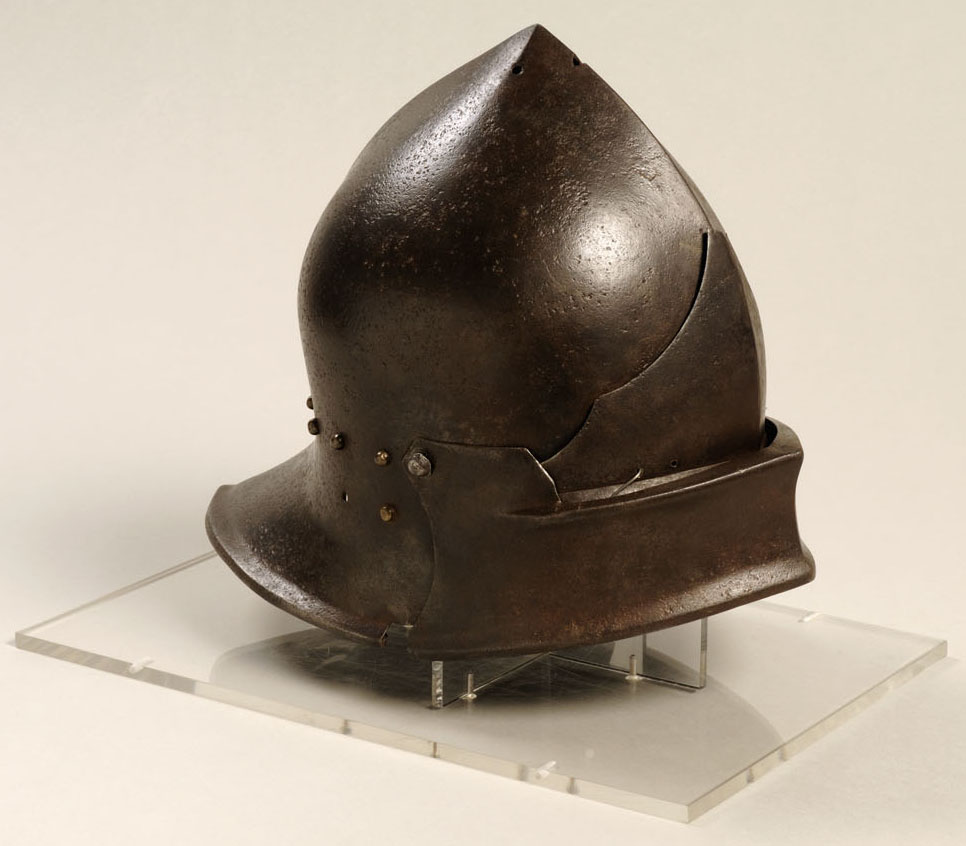 Iron sallet